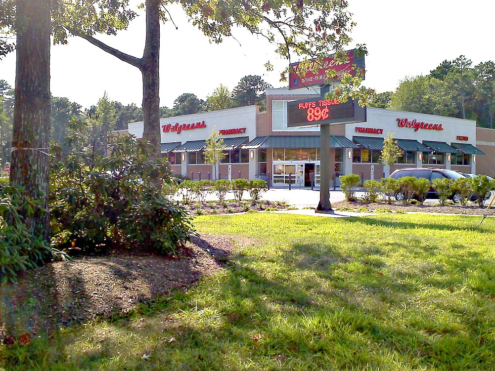 Walgreens in Little Egg Harbor, New Jersey